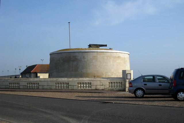 Martello Tower number 74, Esplanade, Seaford Now used as the Seaford Museum. Built around 1806-1810. For Keywords: defensive fort, napoleonic war, martellos, artillery, museum, south coast, england